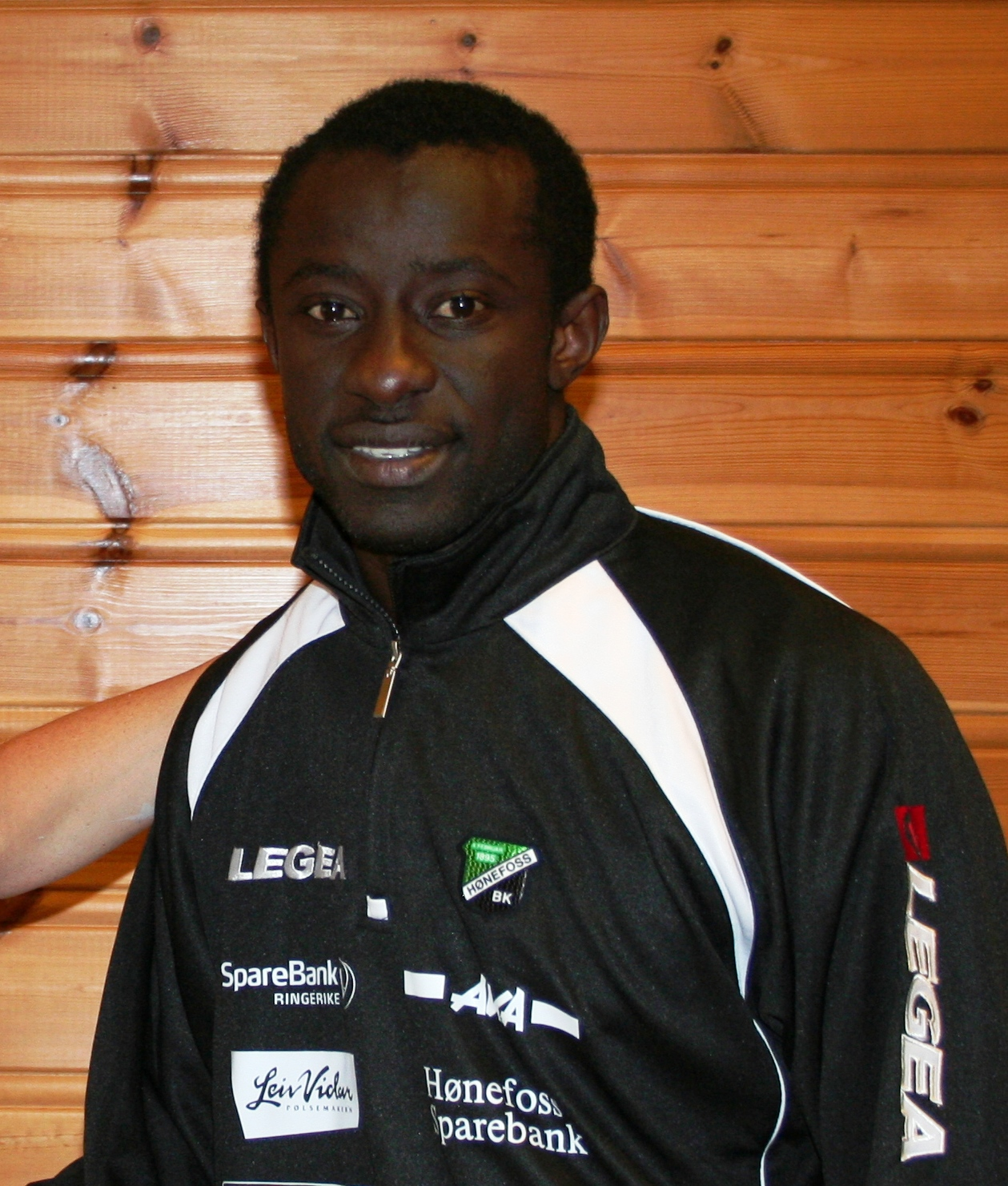 Remond Mendy, who plays for Hønefoss Ballklubb in Norway.